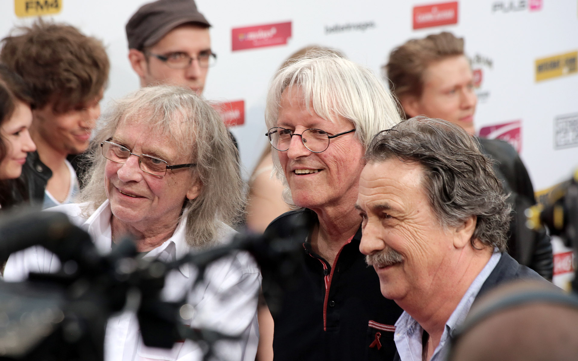 S.T.S. at the Amadeus Austrian Music Award at Volkstheater in Vienna